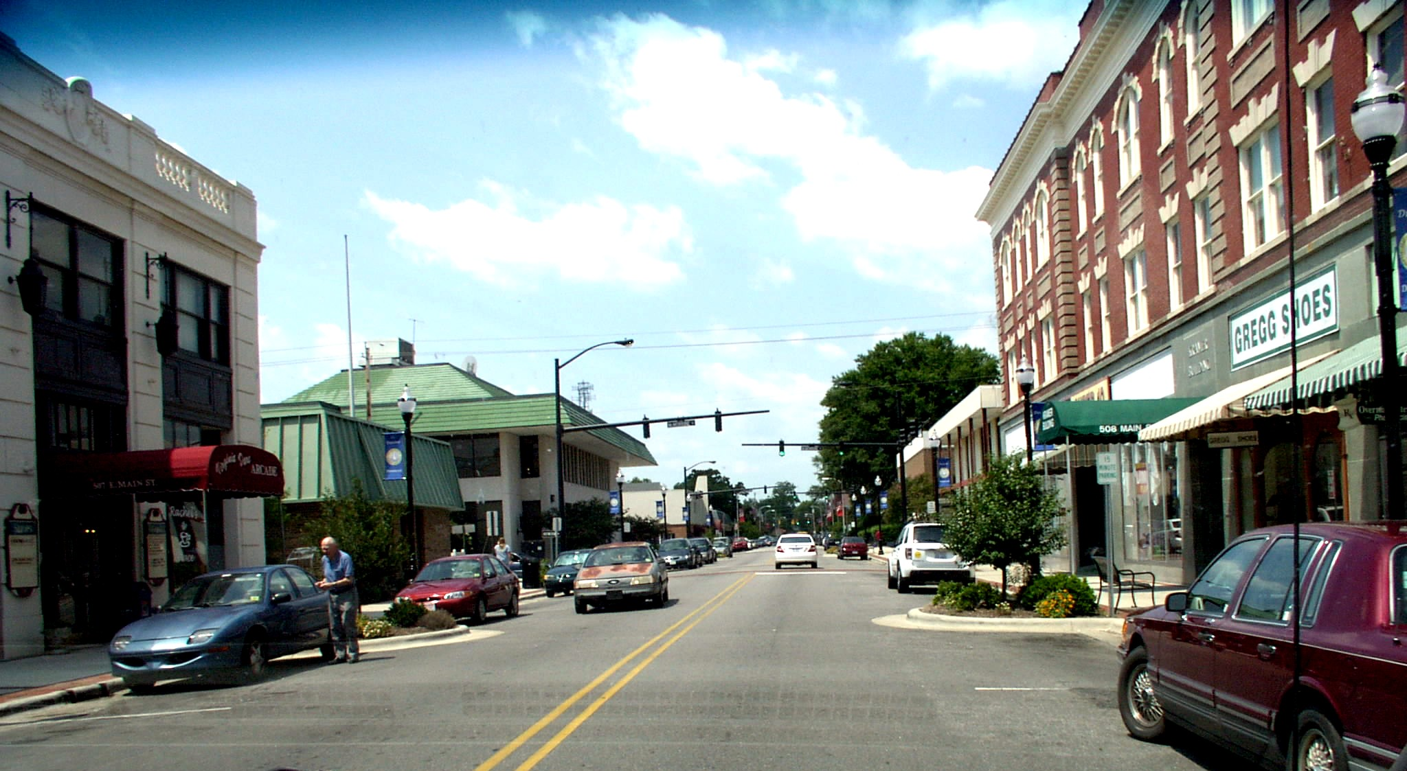 my own work; Image is of Elizabeth City's Main Street in the heart of the CBD. View is facing west with the Pasquotank River waterfront two blocks to the rear of the photo.